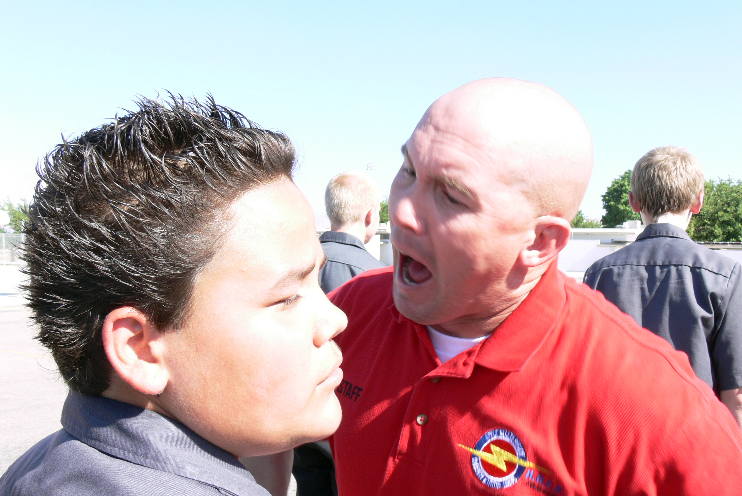 First Sergeant Darren Sullivan (right), the first sergeant of Headquarters Battalion, Marine Corps Logistics Base Barstow, Calif., gives intense verbal instruction to a student of the Self-Discipline, Honor, Obedience, Character and Knowledge Program, in Apple Valley, Calif., during a close-order drill session. Sullivan and three other MCLBBarstow Marines volunteered to participate in the 10-week program to help guide the children toward a more positive future.